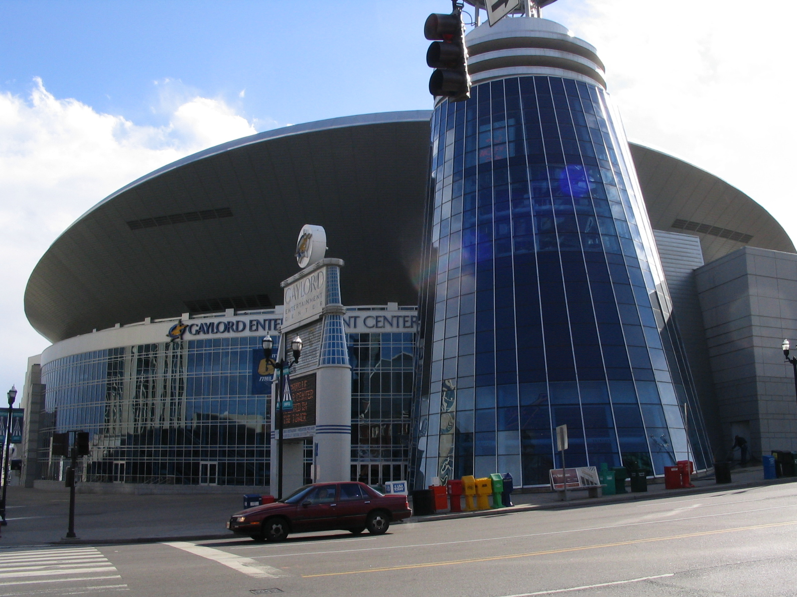 Bridgestone Arena (originally Nashville Arena and formerly Gaylord Entertainment Center and Sommet Center) is an all-purpose venue in downtown Nashville, Tennessee, that was completed in 1996. The Bridgestone Arena is owned by the Sports Authority of Nashville and Davidson County and operated by Powers Management Company, a subsidiary of the Nashville Predators National Hockey League franchise, which has been its primary tenant since 1998. The Predators hosted the NHL Entry Draft here in 2003. In 1997, it was the venue of the United States Figure Skating Association national championships, and in 2004 hosted the U.S. Gymnastics championships. It was the home of the Nashville Kats franchise of the Arena Football League from 1997 until 2001, and hosted the team's revival from 2005 to 2007, when the Kats folded. The venue has also hosted numerous concerts and religious gatherings, and some major basketball events, including both men's (2001, 2006, 2010) and women's tournaments of the Southeastern Conference and the Ohio Valley Conference. It will host the 2014 NCAA Women's Final 4. Since 2002, it has also hosted a PBR Built Ford Tough Series bull riding event every year (except in 2005 and 2006) until 2010. The event moved to this venue in 2002 after having previously occupied the Municipal Auditorium from 1994 to 2001; during the venue's first year hosting this event, the Built Ford Tough Series was known as the Bud Light Cup. The Bridgestone Arena has a seating capacity of 17,113 for ice hockey, 19,395 for basketball, 10,000 for half-house concerts, 18,500 for end-stage concerts and 20,000 for center-stage concerts, depending on the configuration used. It has also hosted several professional wrestling events and a boxing card since its opening.